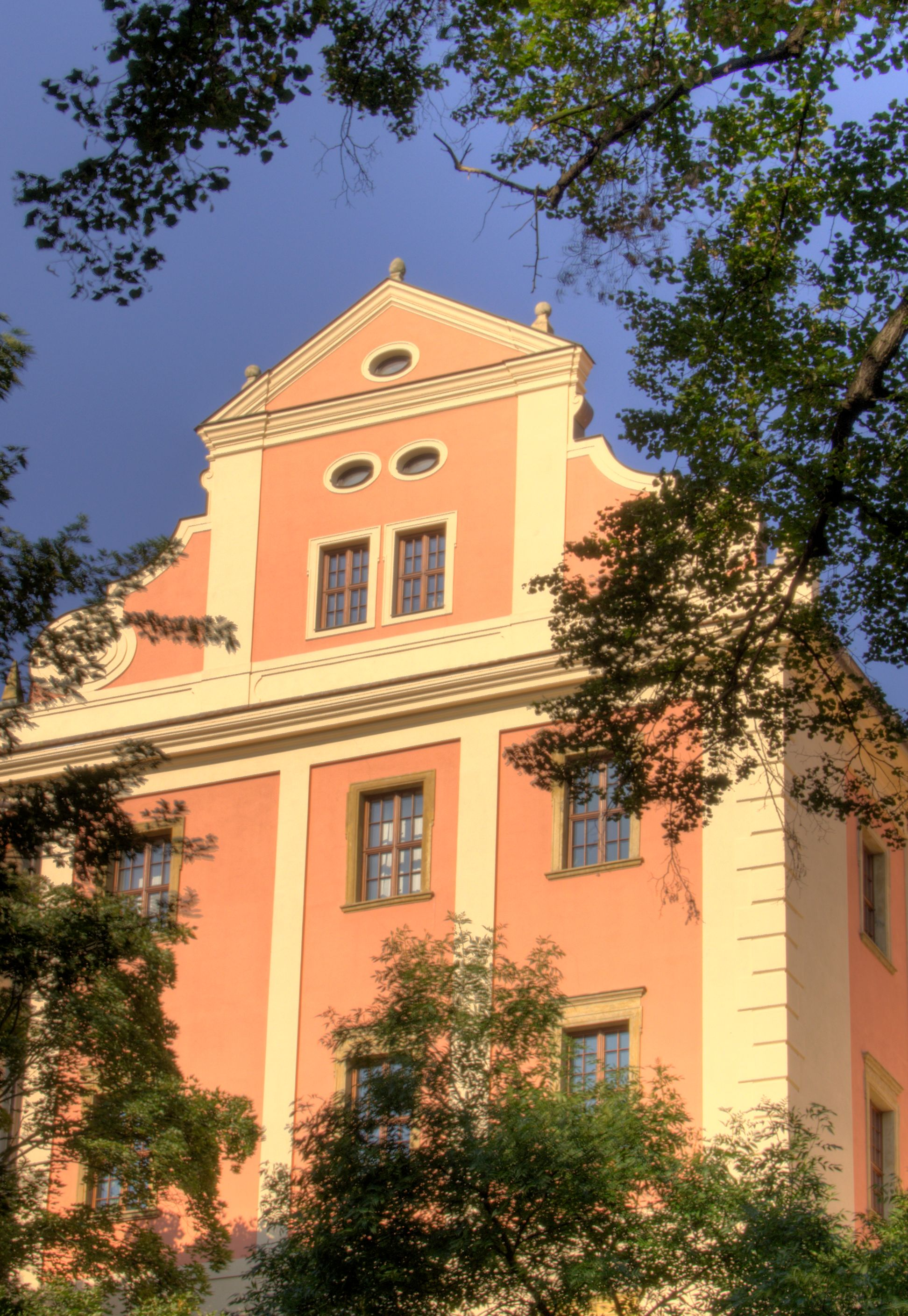 Department of Musicology (Palacký University, Faculty of Philosophy) - Picture of part of the building, which used to be Jesuit College